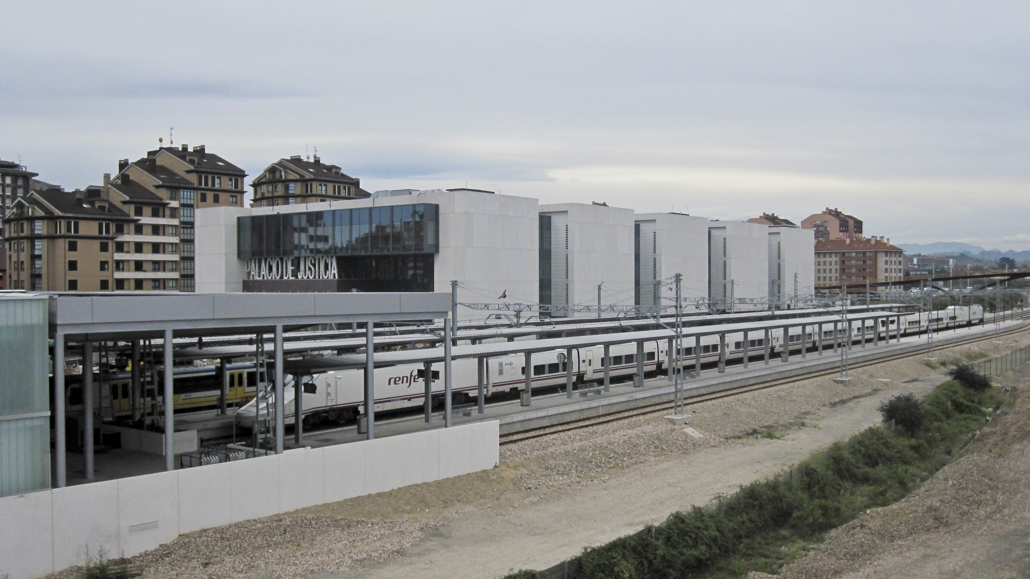 Train station, Gijón, Astoria, Spain. Also Palace of Justice.